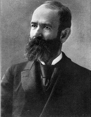 Jay Gould (1836 — 1892)